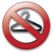 Userpage icon for pro-choice